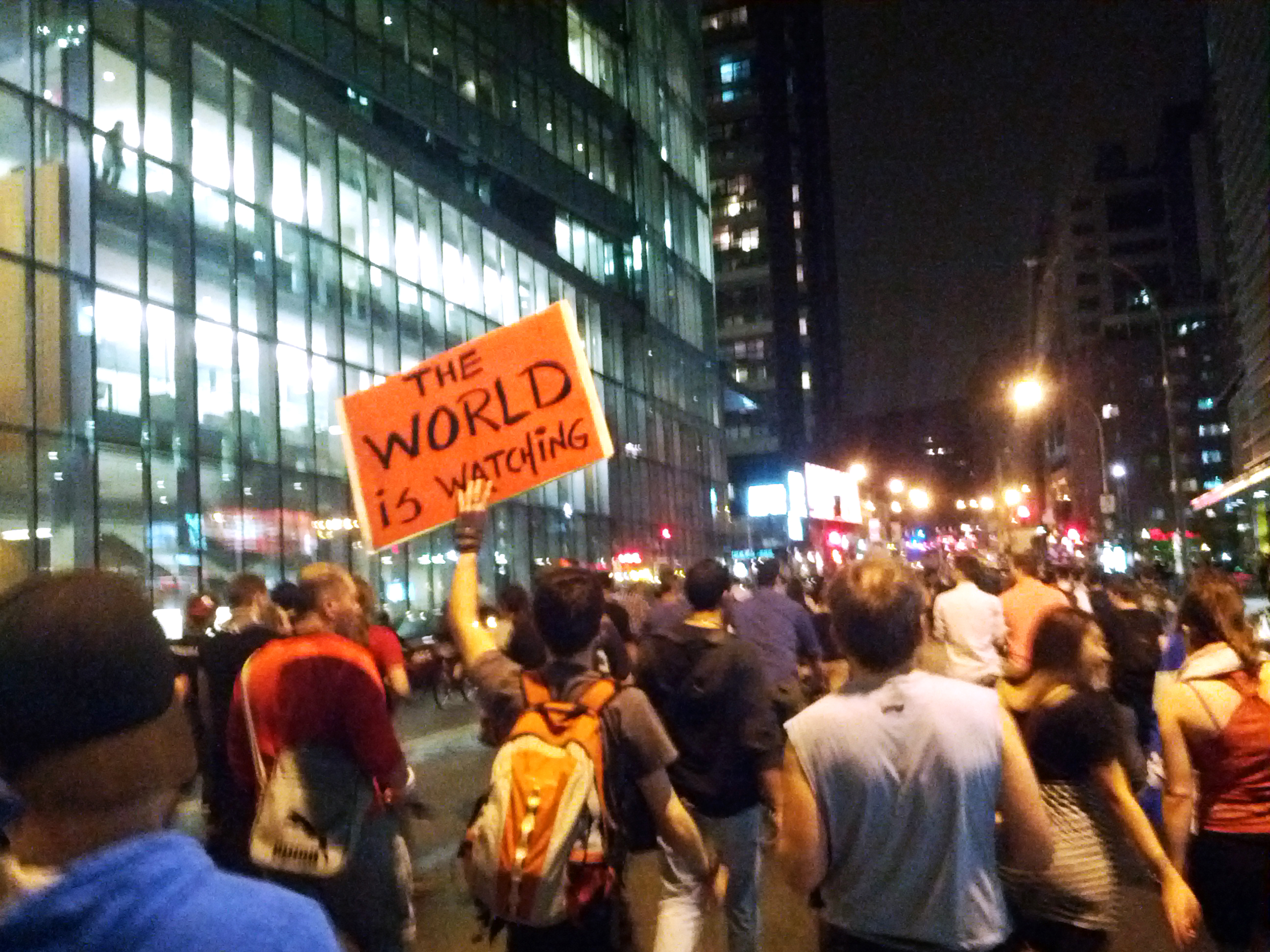 Montreal, Quebec, pots and pans night protest against Bill 78 on 27 May 2012. A sign read "The World is Watching" as protesters march on Guy Street, downtown Montreal near Concordia University.